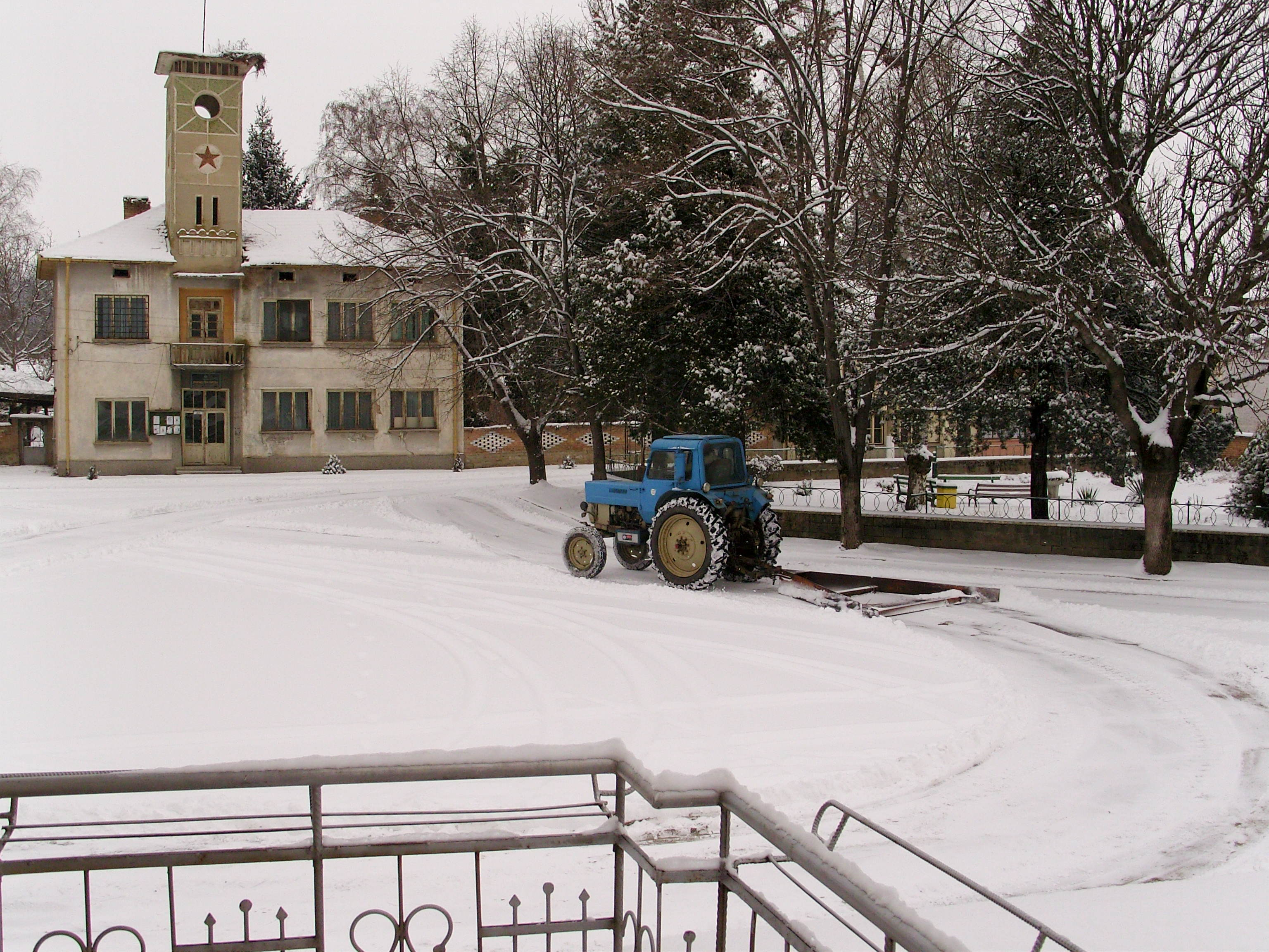 A picture from village Rositsa, Veliko Tarnovo District, Bulgaria